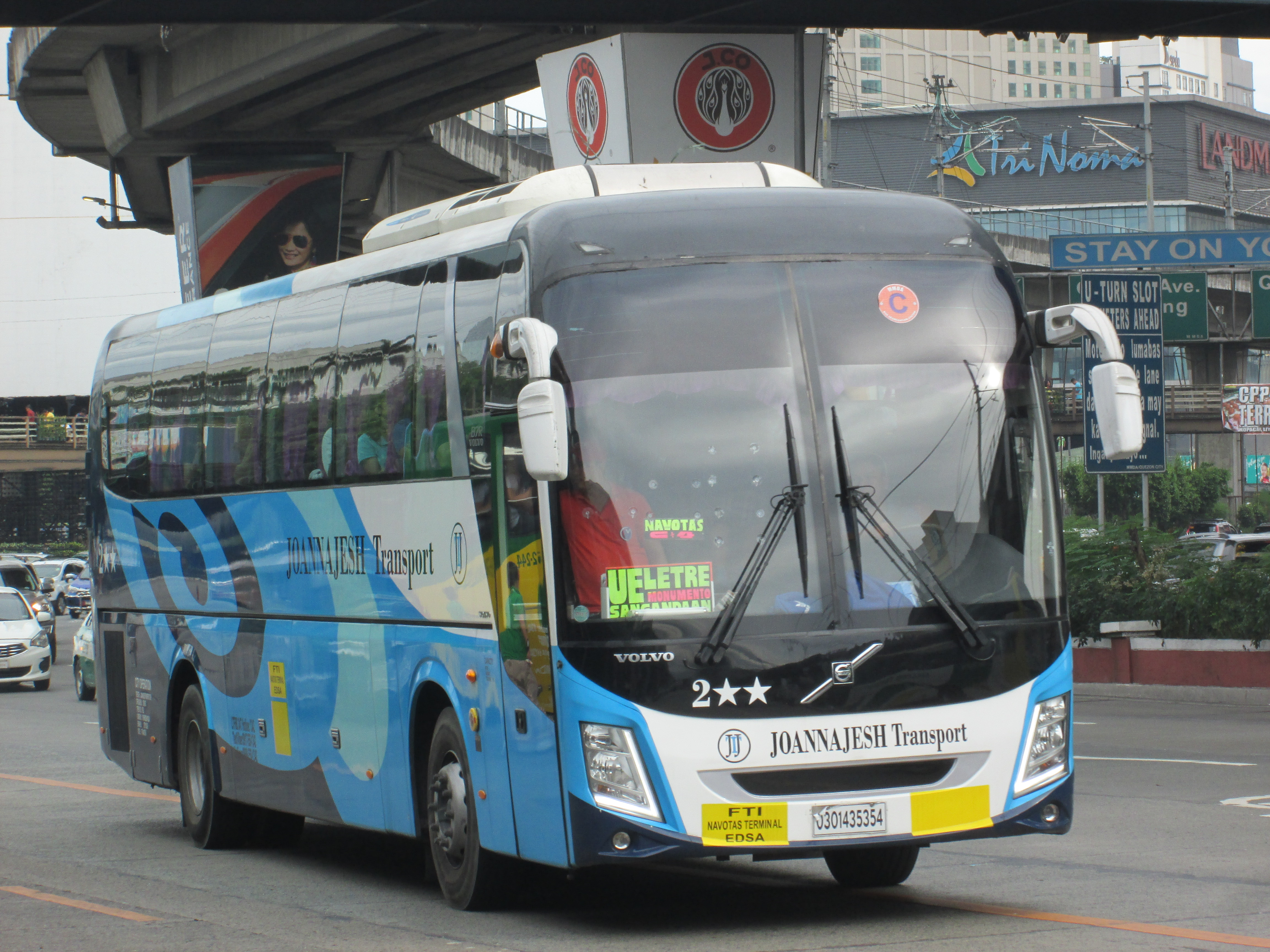 Volvo B7R made by Autodelta Coach Buildes, Inc. (PH)